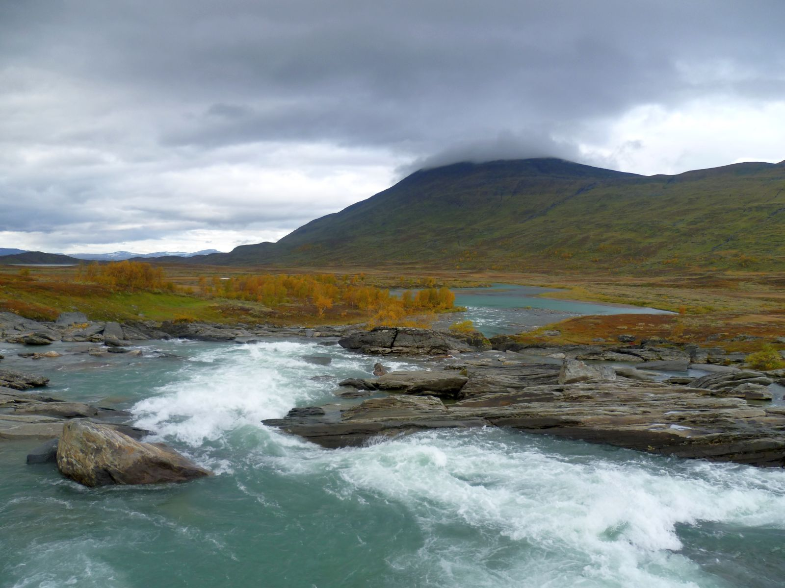 View on Miellädno towards its mouth into Lake Virihaure, from the bridge in the course of Padjelantaleden trail, Padjelanta National Park, Sweden